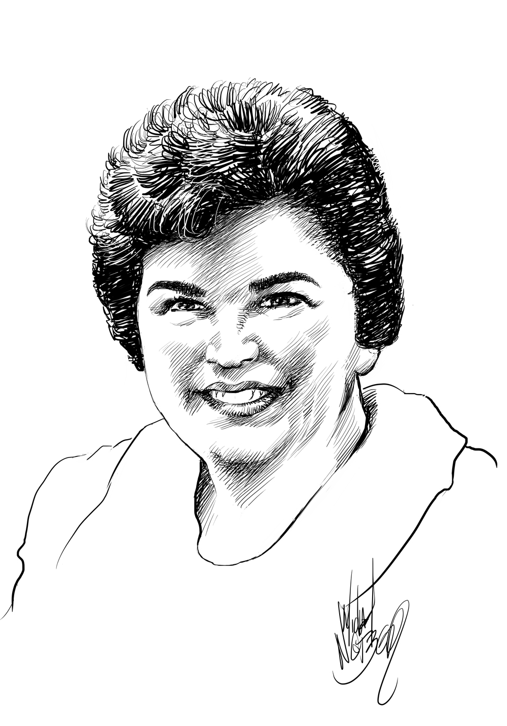 Portrait of Marvel comics artist Marie Severin, from Michael Netzer's Portraits of the Creators Sketchbook.